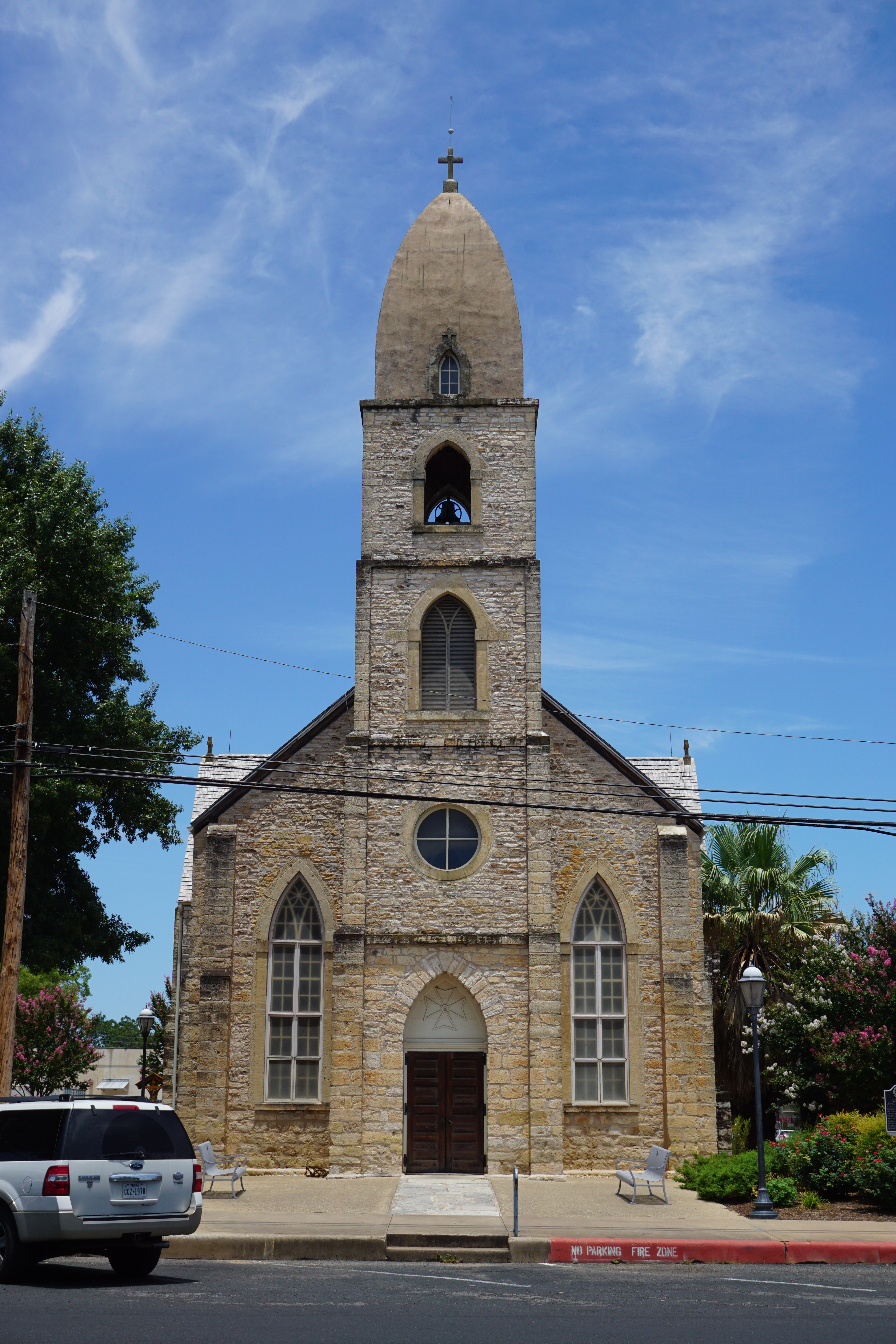 The Marienkirche of St. Mary's Catholic Church in Fredericksburg, Texas (United States).